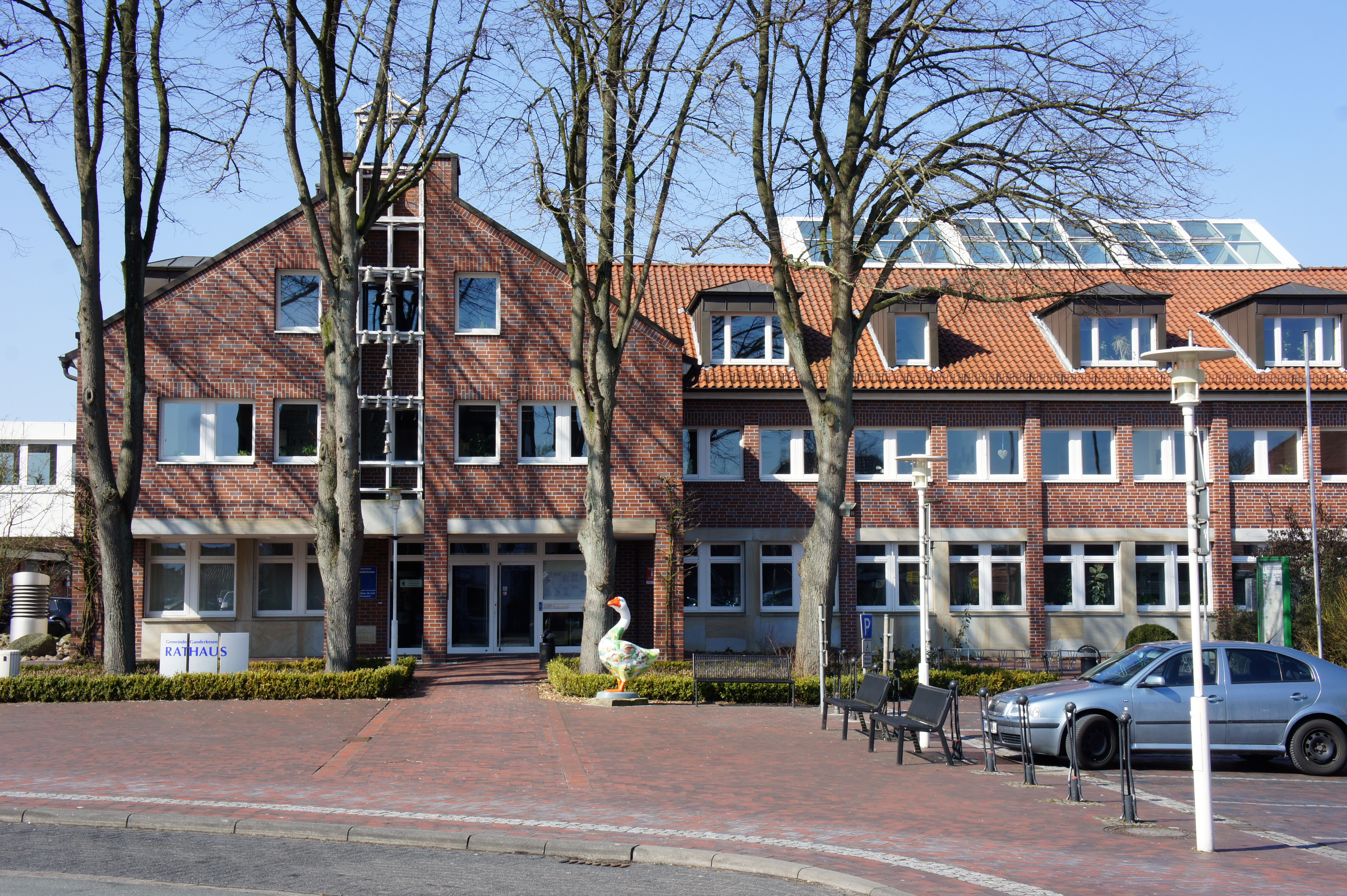 Town hall in Ganderkesee in spring 2013